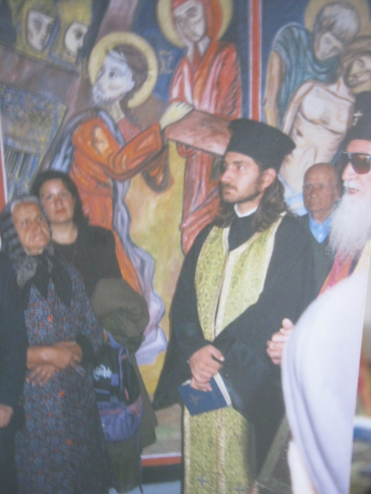 Archangel Michail Church in the village of Ravnogor